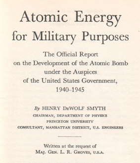 Fronticepiece of en:1946 edition of Smyth Report, scanned from original owned by User:Fastfission. Copyright notice in book says, "Copyright 1945, by H. D. Smyth. Reproduction in whole or in part authorized and permitted."